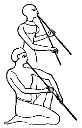 An illustration from the Encyclopaedia Biblica, a 1903 publication which is now in the public domain. Fig. 7 for article "Music". Image of Egyptian and Assyrian double flutes - as still used in 19th century Palestine by shepherds.